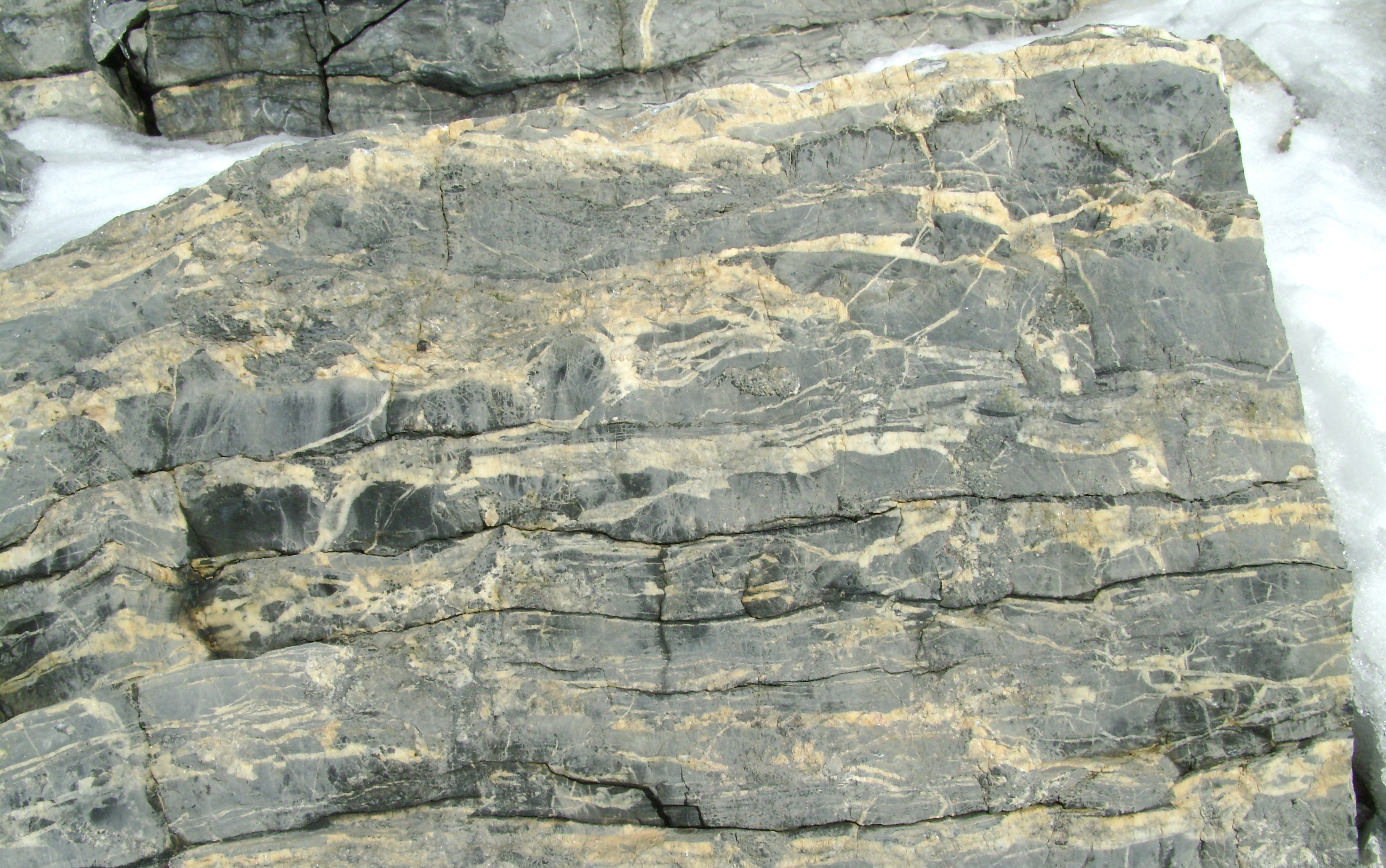 Dolomitic rocks at Hintergrat of Ortler